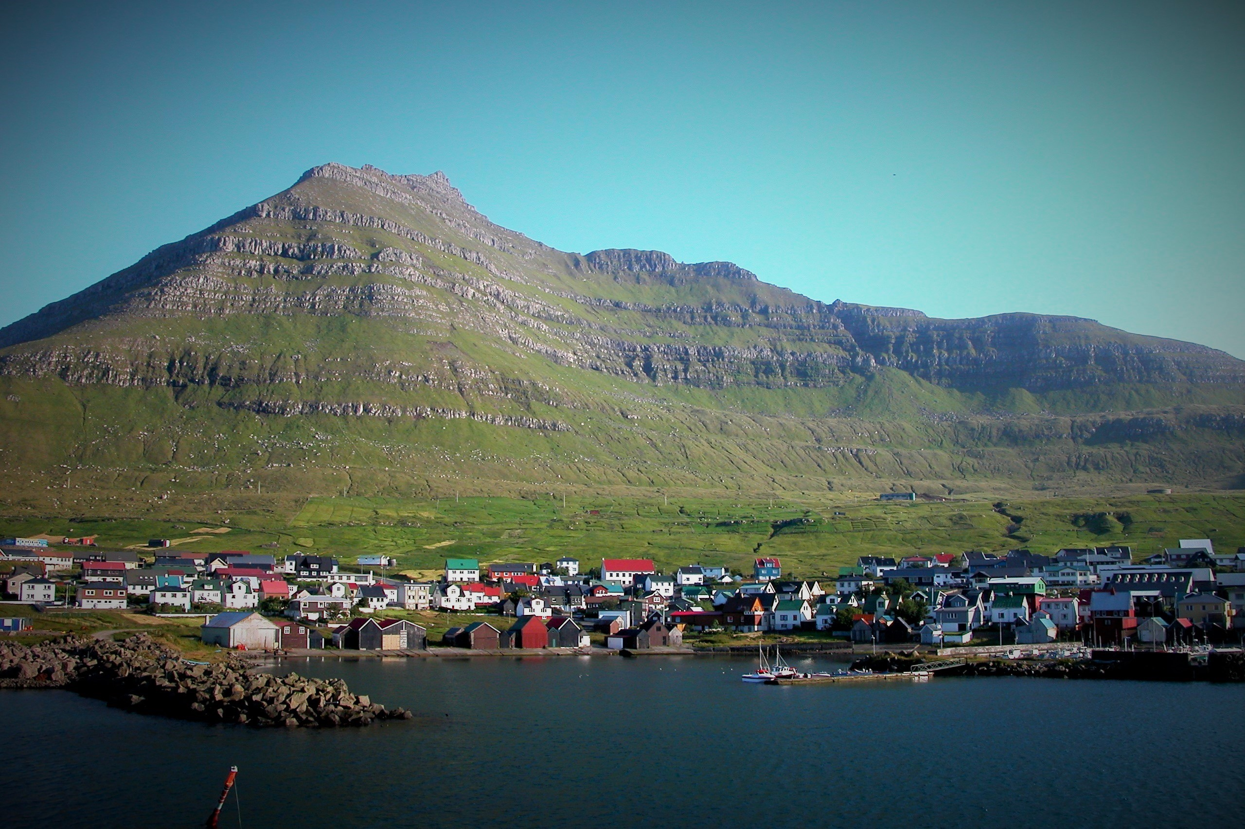 Leirvík, Eysturoy, Faroe Islands